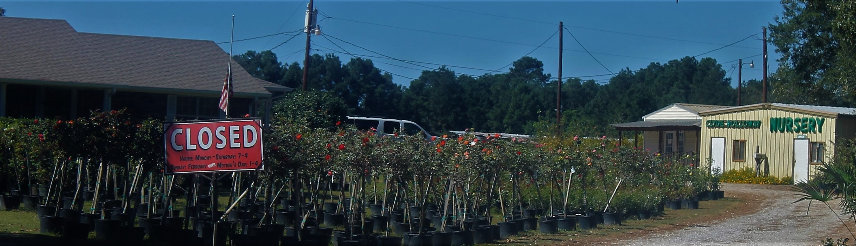 Clyde Holloway Nursery in Forest Hill, LA, closed on the day of the former U.S. Representative's funeral